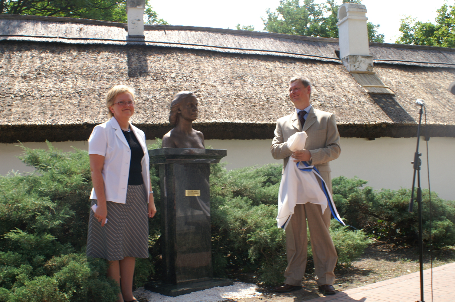 A bust of Ellen Niit was unveiled in Kiskőrös, the birthplace of Sándor Petőfi. Erna Viitol works. Replica. 2009 Bronze bust, the original made in 1954. Located in the Translators' sculpture park in Petőfi Sándor Square, Kiskőrös, Bács-Kiskun County